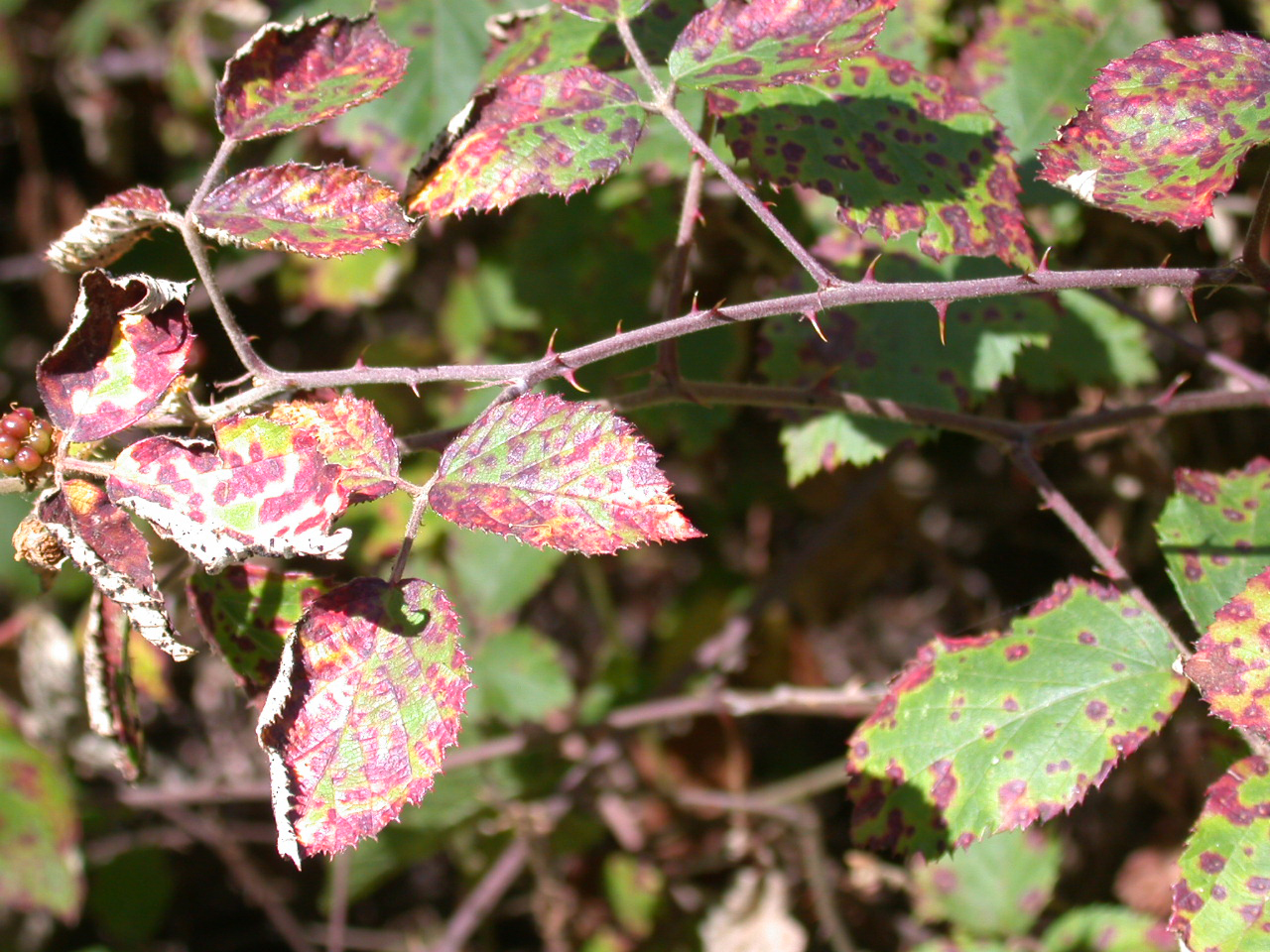 Blackberry plants infected with rust fungus, a biological control agent for blackberry. The newly released strains of the European blackberry rust fungus (Phragmidium violaceum) are highly host-specific for weedy blackberries.